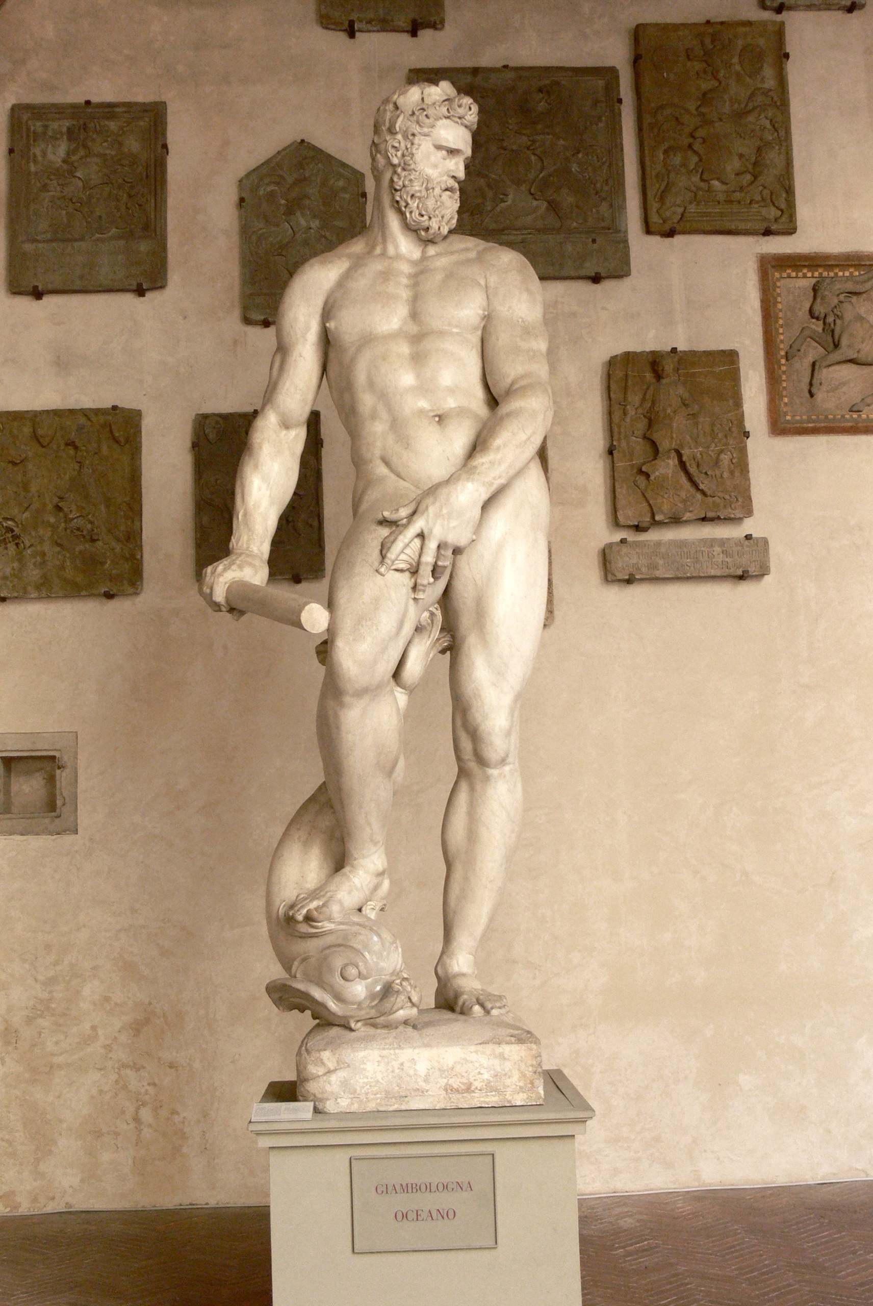 Museo del Bargello ( Florence ). Marble statue ( 16th century ) of Oceanus by Giambologna.